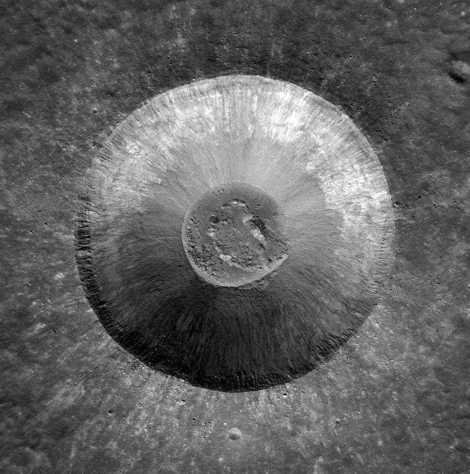 Lichtenberg B. The crater is approximately 5 km in diameter, north is up, Sun is from the SSW [NASA/GSFC/Arizona State University].